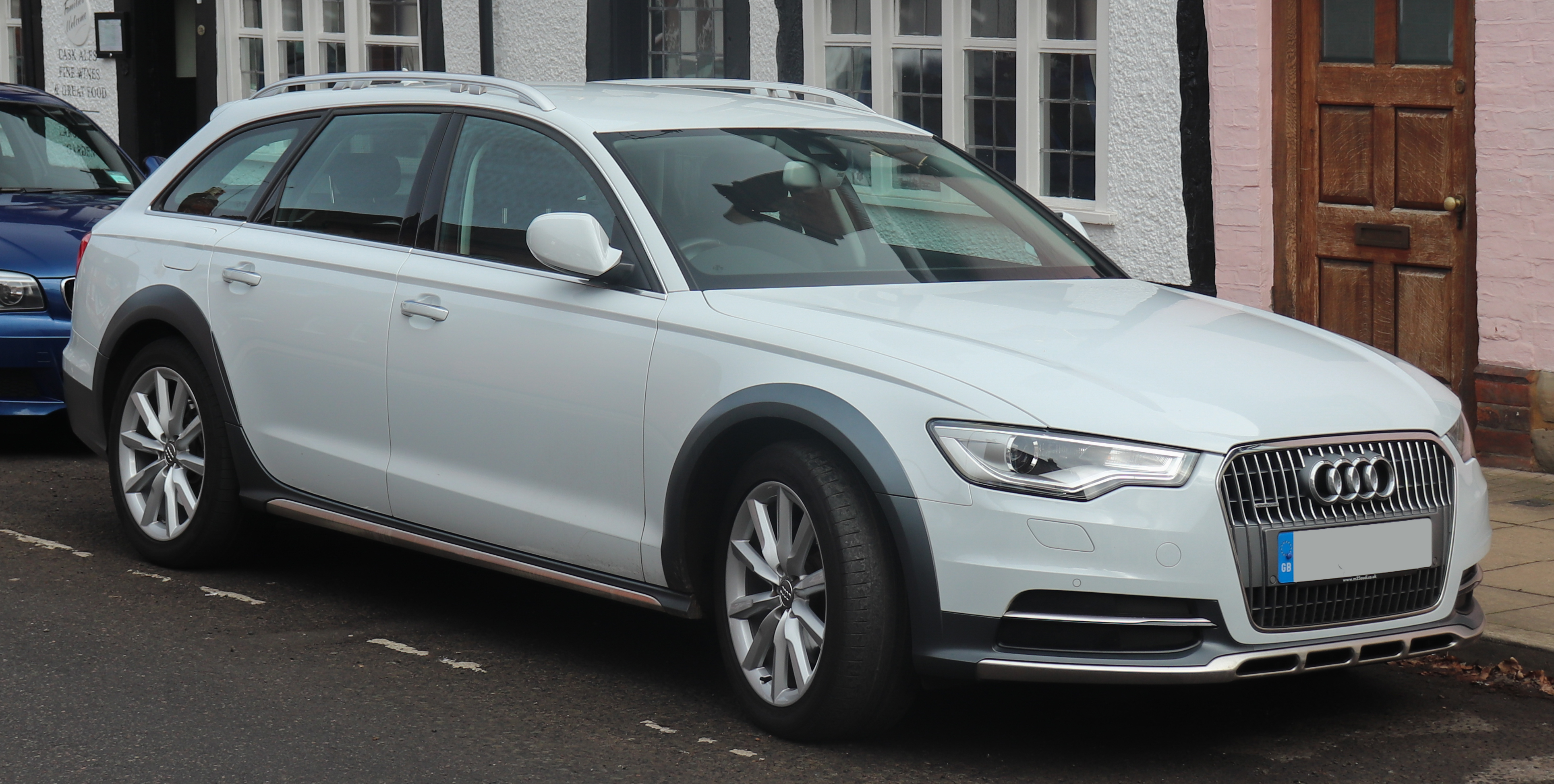 2014 Audi A6 Allroad TDi Quattro Automatic 3.0 Front Taken in Warwick